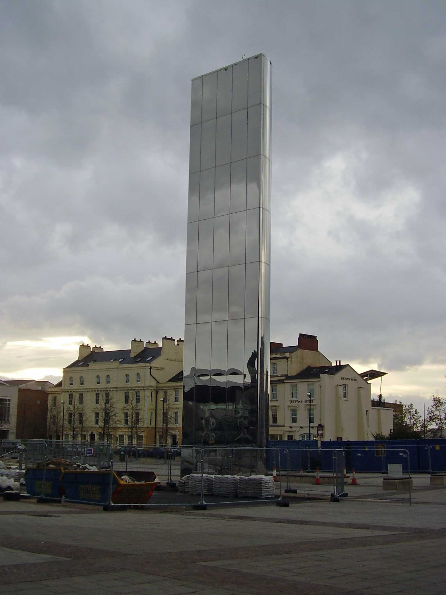 Wales Millennium Centre-Torchwood